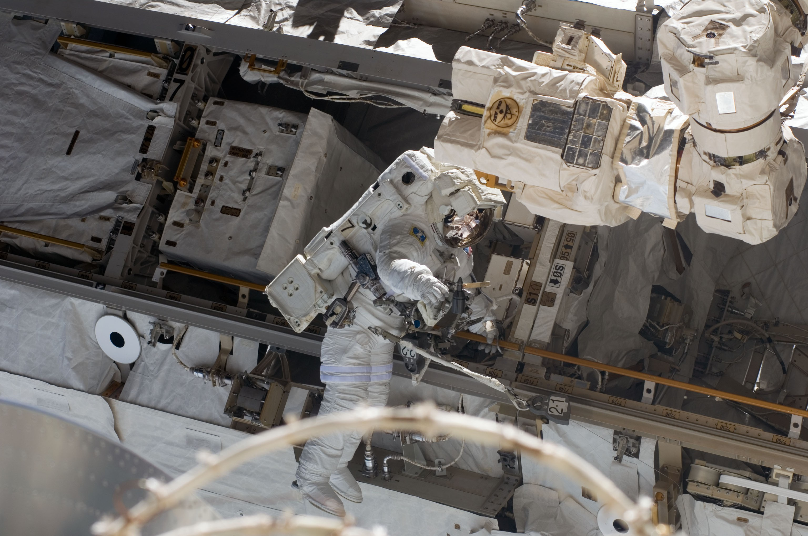 Astronaut Ron Garan, STS-124 mission specialist, participates in the mission's third scheduled session of extravehicular activity (EVA) as construction and maintenance continue on the International Space Station. During the six-hour, 33-minute spacewalk, Garan and astronaut Mike Fossum (out of frame), mission specialist, exchanged a depleted Nitrogen Tank Assembly for a new one, removed thermal covers and launch locks from the Kibo laboratory, reinstalled a repaired television camera onto the space station's left P1 truss, and retrieved samples of a dust-like substance from the left Solar Alpha Rotary Joint for analysis by experts on the ground.